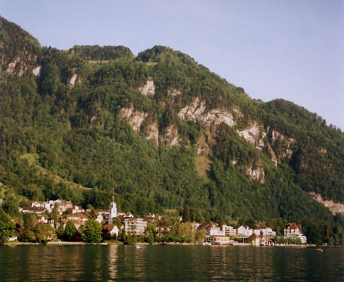 Photo of Vitznau from across Lake Lucerne in Switzerland